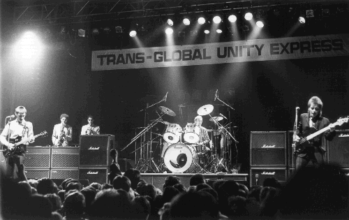 The Jam en concert à Newcastle en 1982